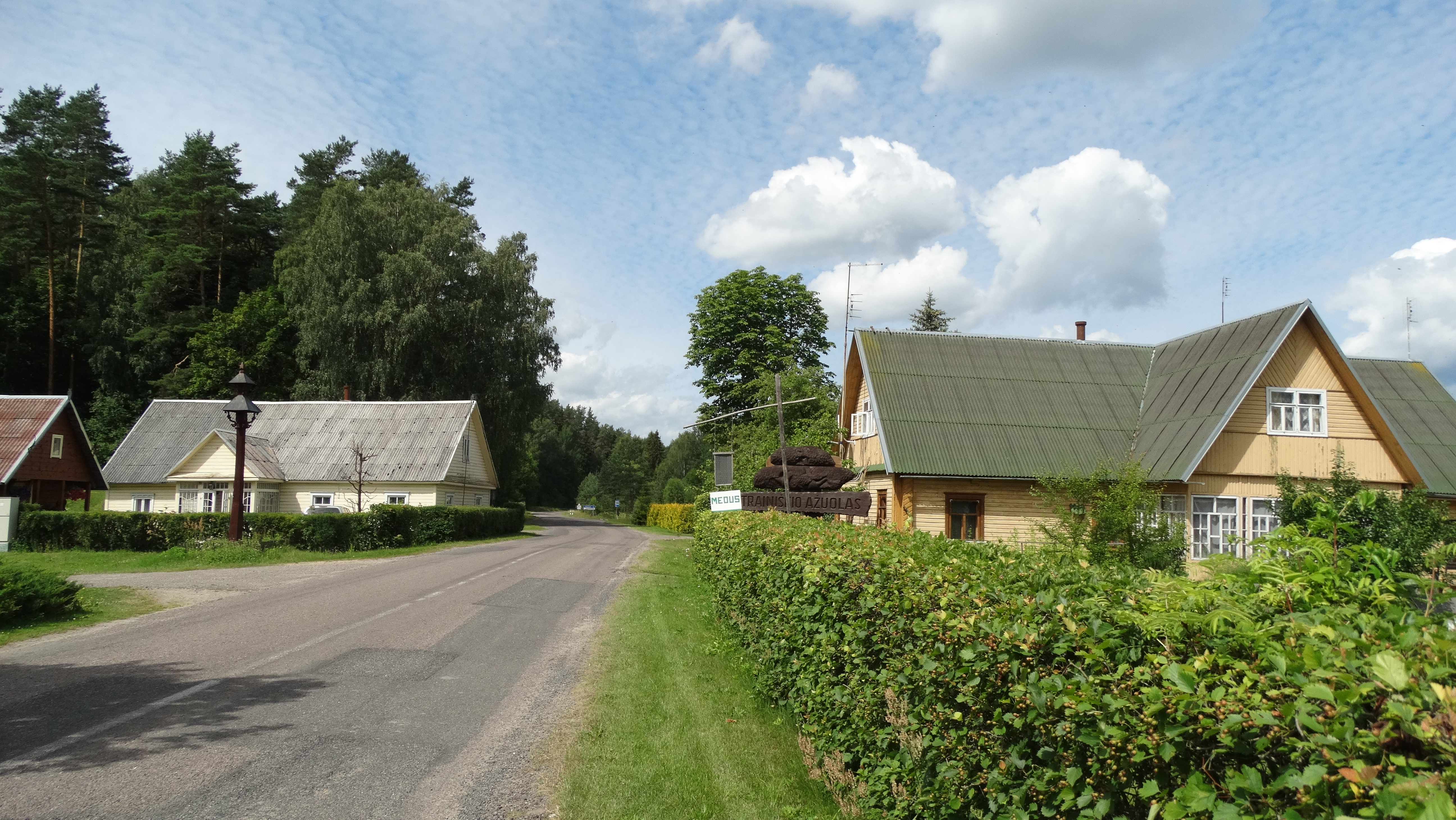 Trainiškis, Ignalina District, Lithuania